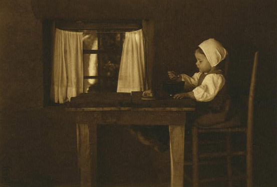 Original title: "Hunger ist der beste Koch" (Hunger is the Best Cook). Photographic print : carbon ; 11.1 x 16.2 cm